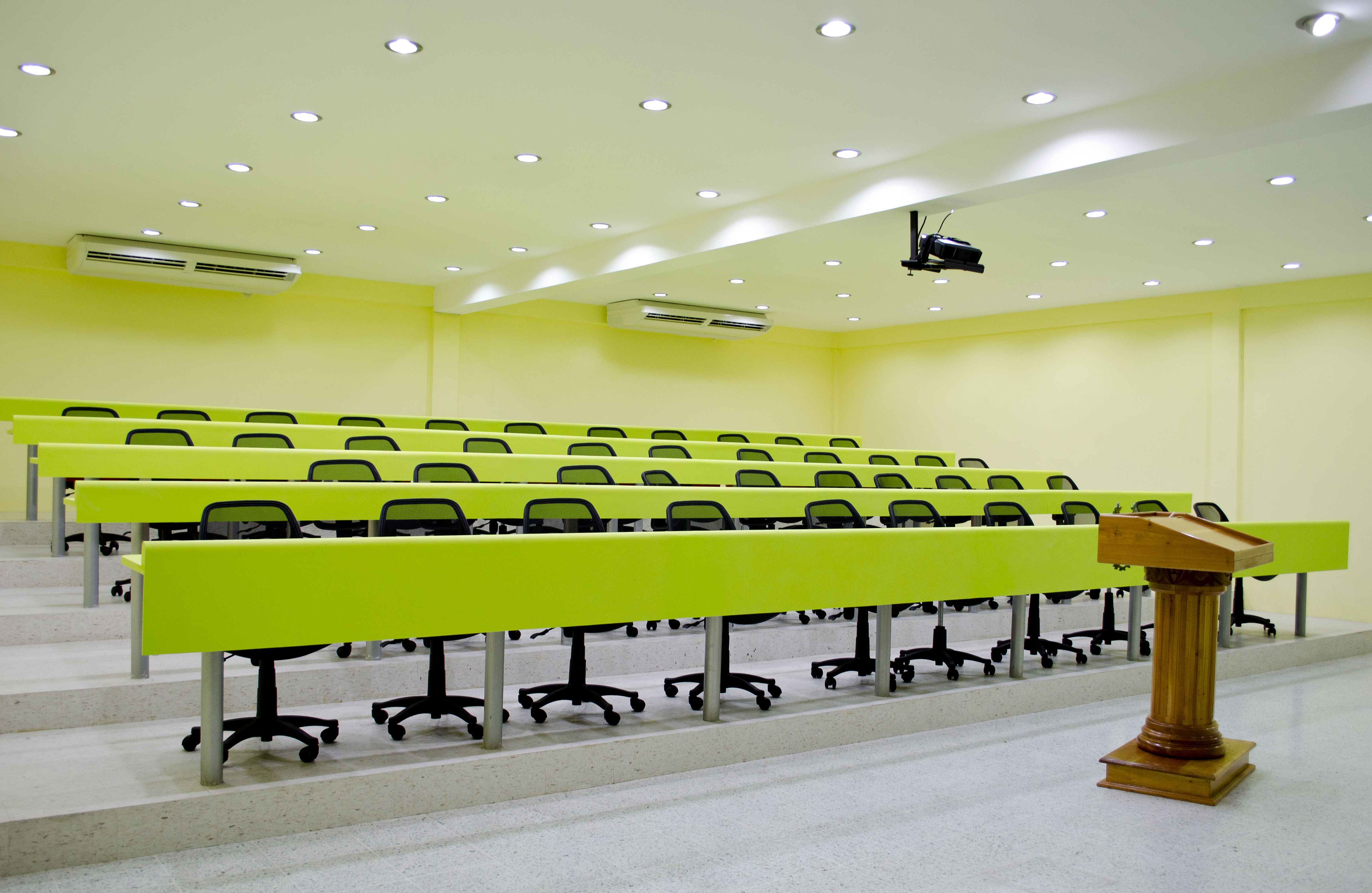 Uno de los modelos de aula tipo auditorio.